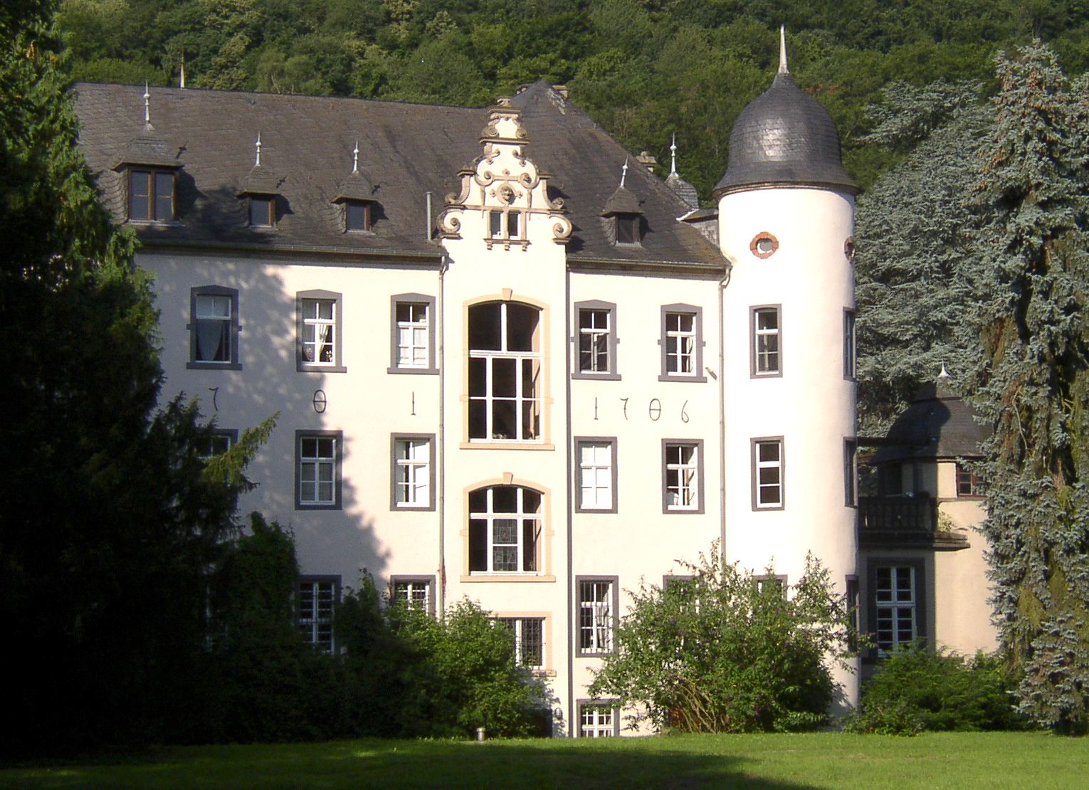 Castle Namedy in Andernach in Rhineland-Palatinate, Germany